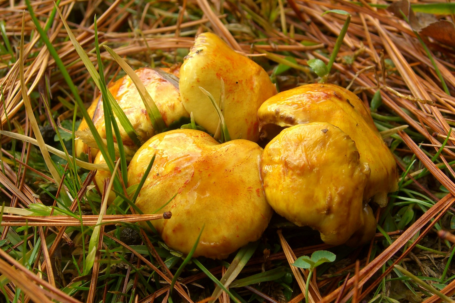 The "chicken-fat" mushroom, species Suillus americanus (Peck) Snell. Photographed in CabinCove, Smoky Mountains, Haywood Co., North Carolina, USA.